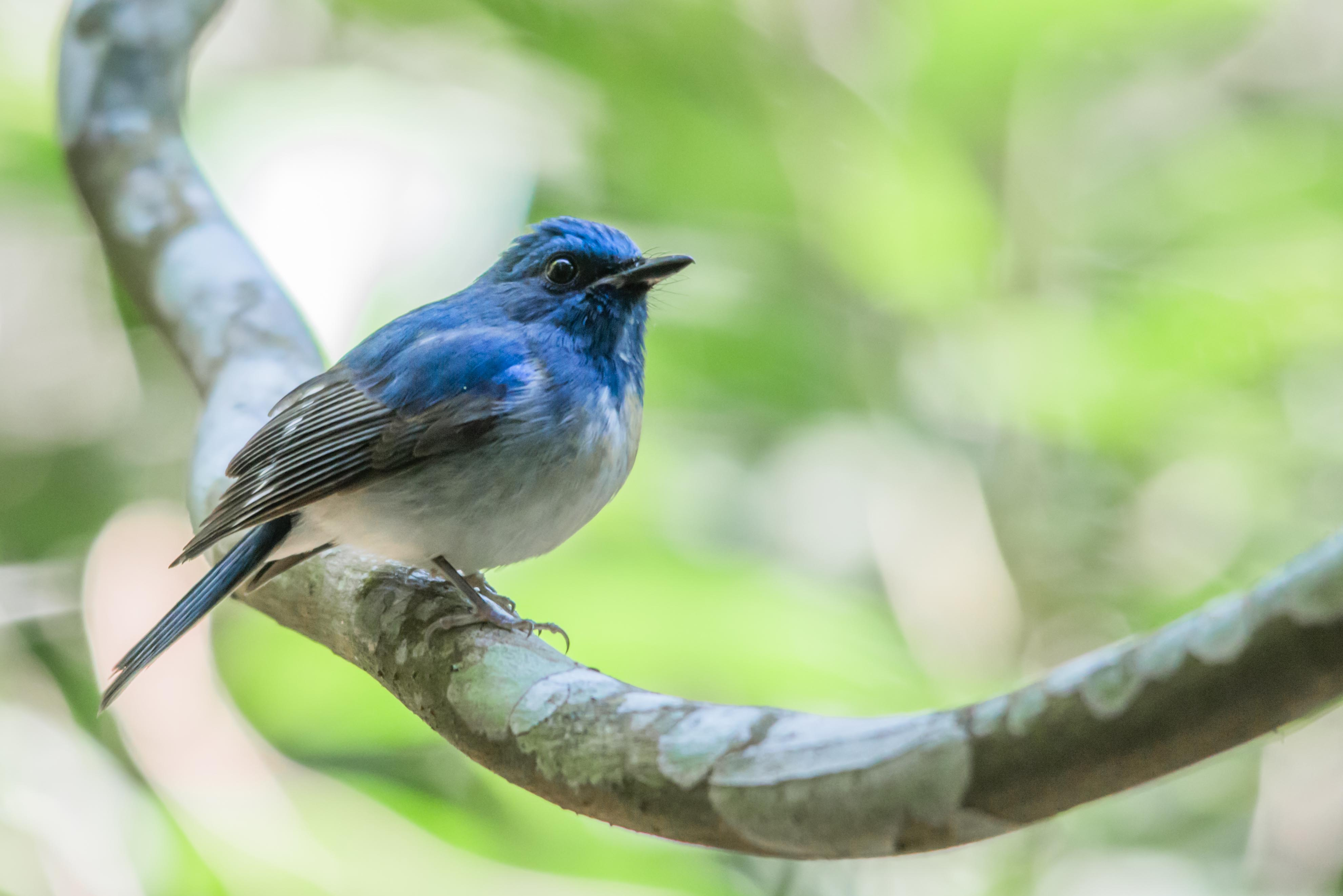 Hainan Blue Flycatcher Cyornis hainanus, Khao Yai National Park, Nakhon Ratchasima Province, Thailand